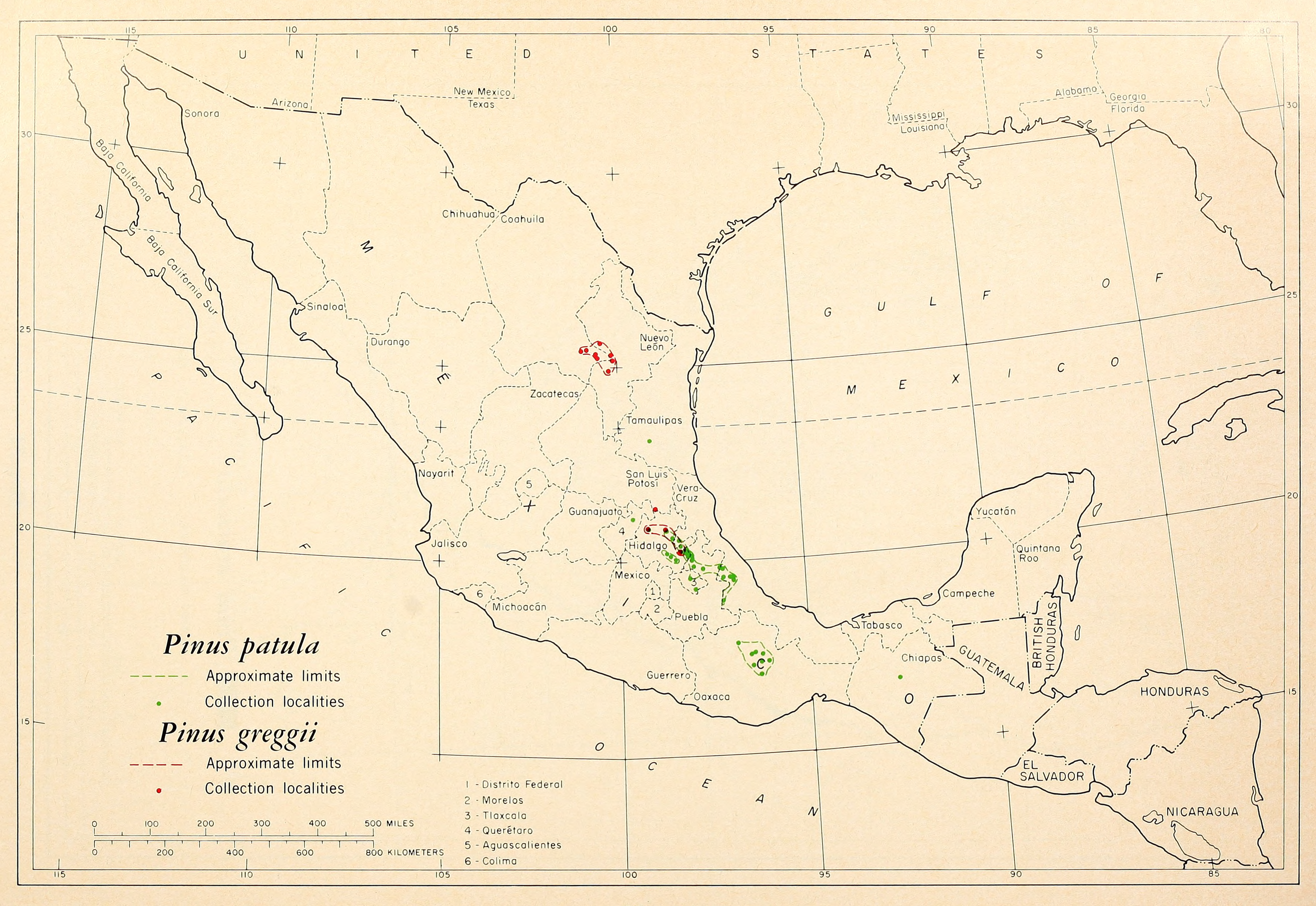 Pinus patula & Pinus greggii range map